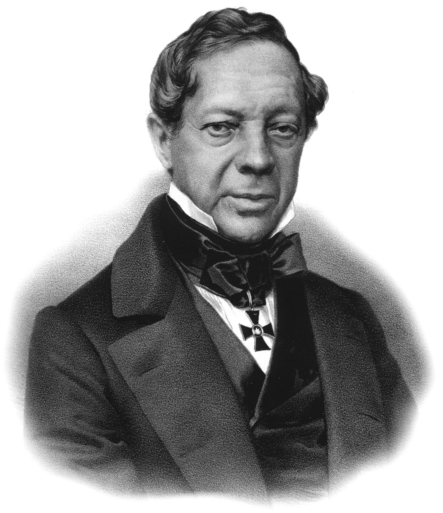 Portrait of the Russian painter Piotr Basin (1793–1877).